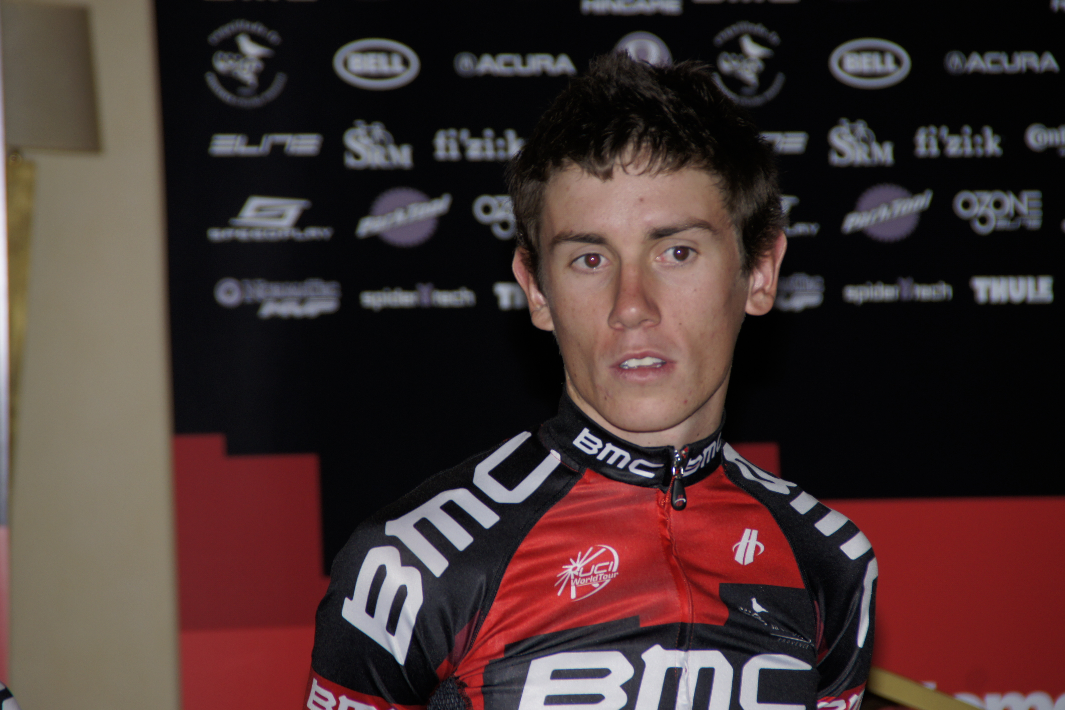 Timothy Roe during the presentation of the BMC Pro Cycling team in Denia, Spain